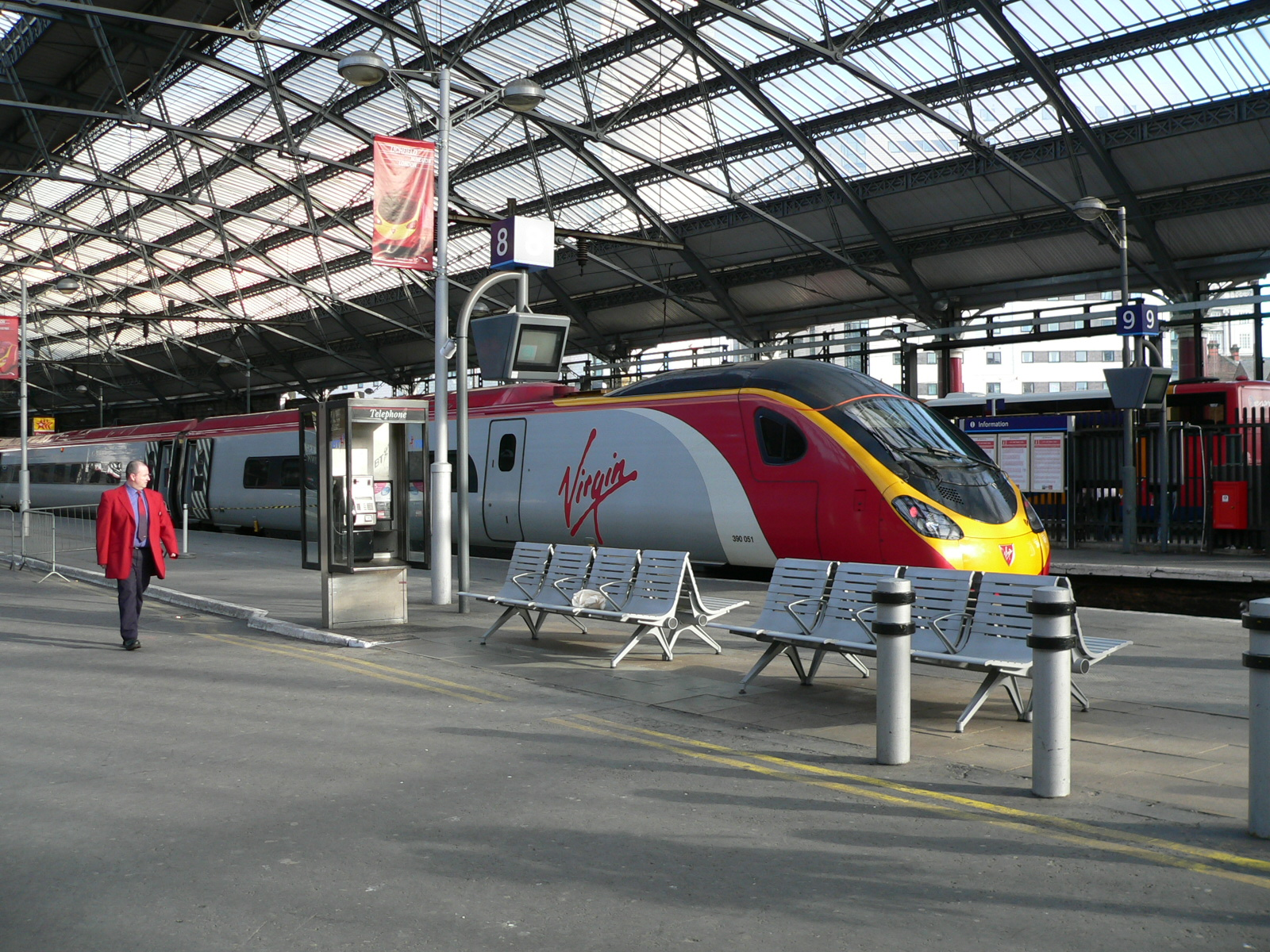 Virgin West Coast Class 390 Pendolino EMU 390051 at platform 8 of Liverpool Lime Street railway station.